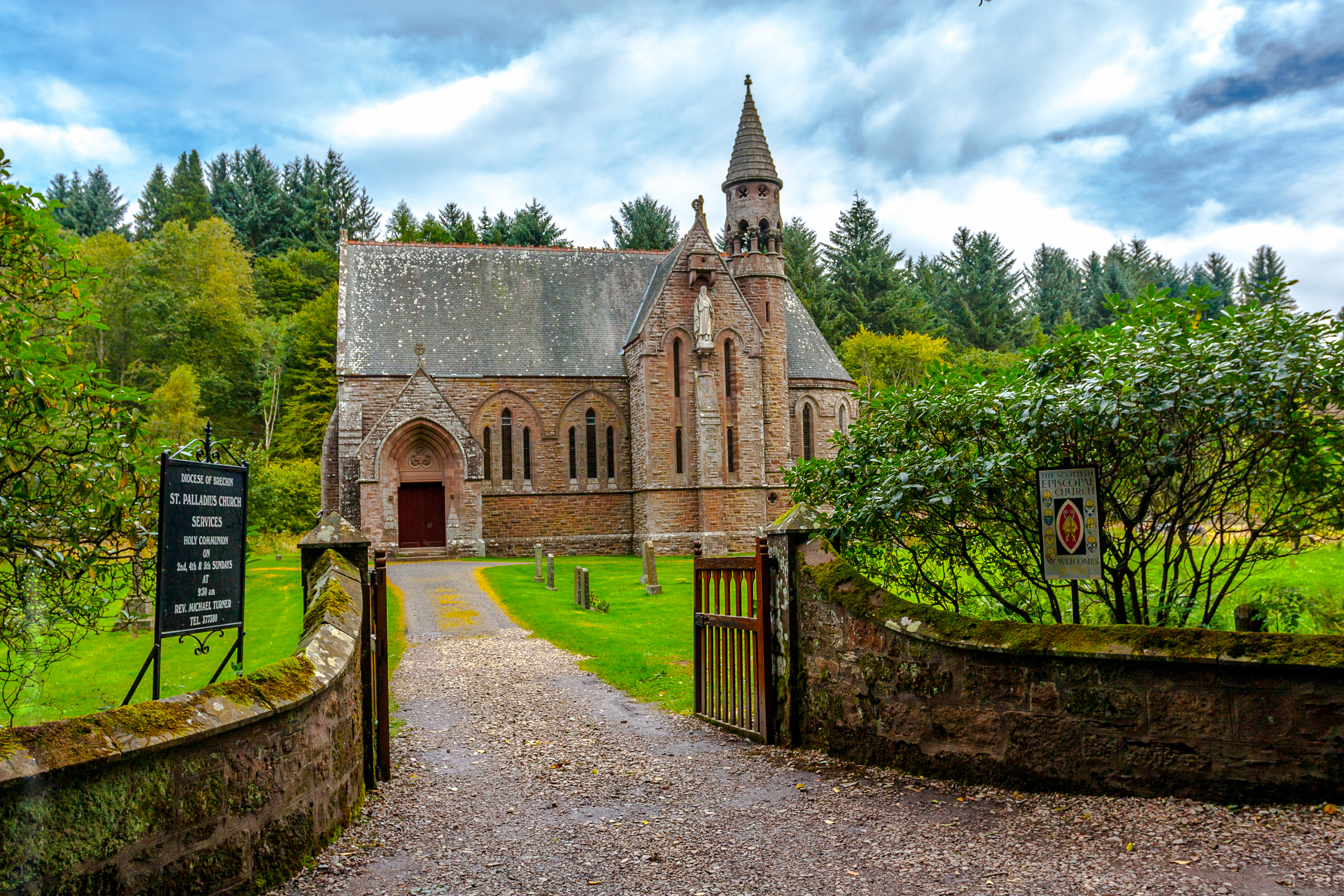 St Palladius Church